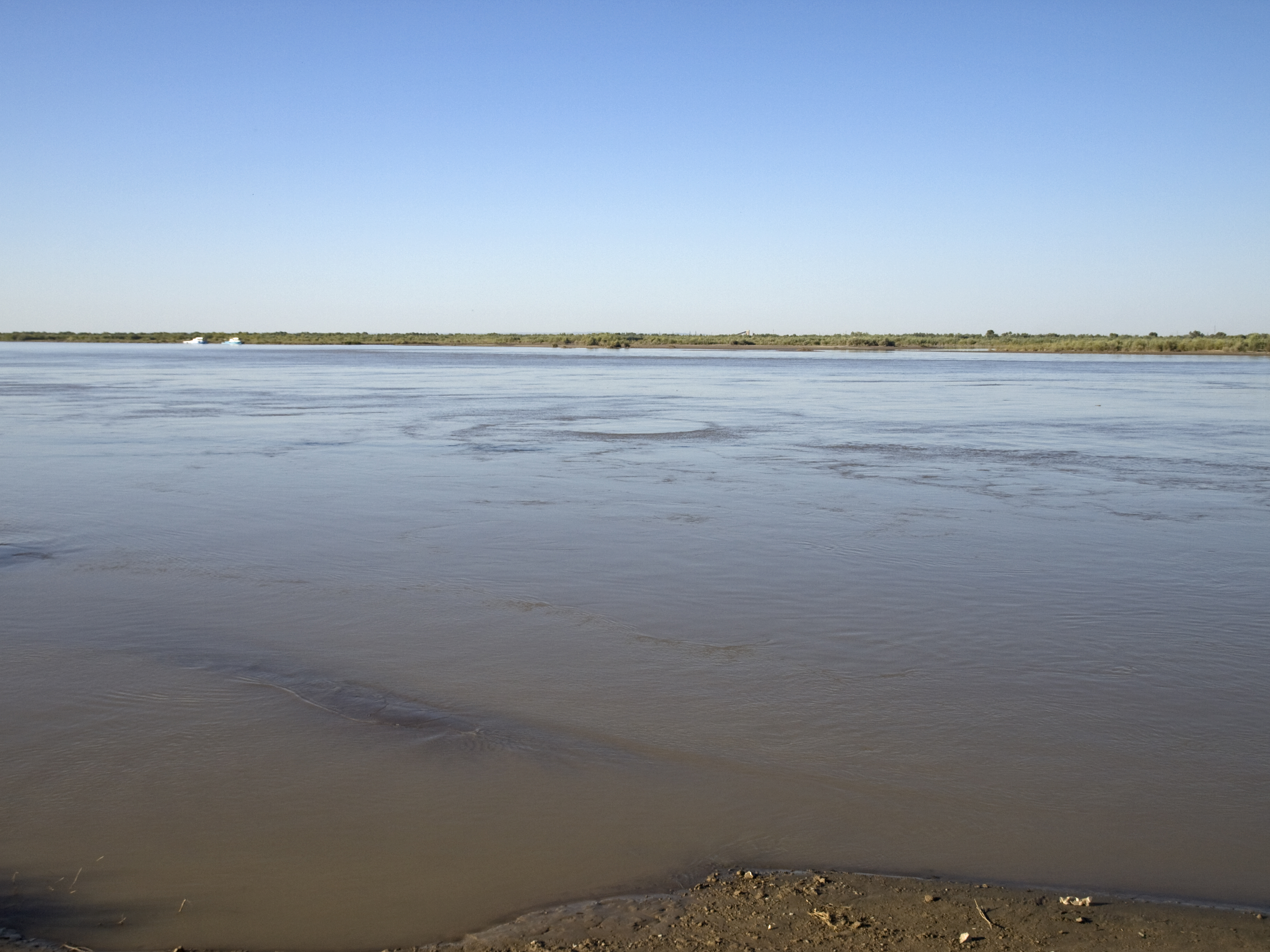 Amudaria below the bridge in Urgench (taken from the former ferry location in Xorazm Region); the other bank is in Beruniy District of Karakalpakstan